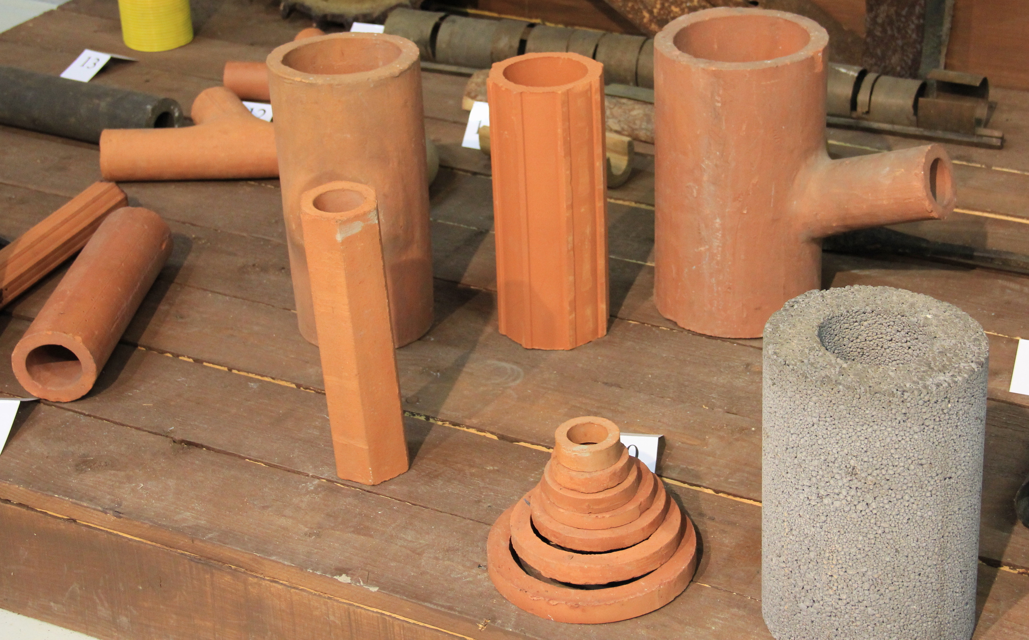 Red tile drain pipes, used for French drains in fields. Sarka, The Finnish Museum of Agriculture, Loimaa, Finland.